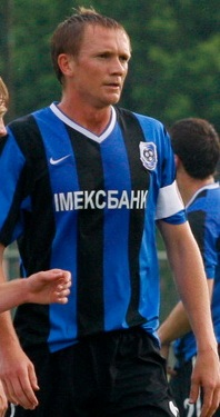 Anatoliy Didenko